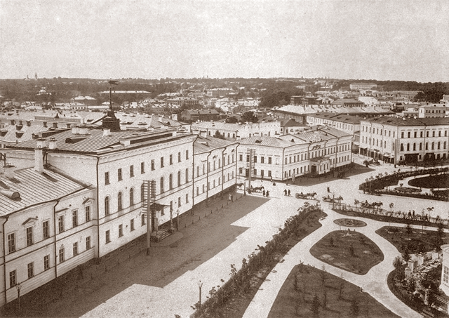 Provincial Gymnasia and the Post office on Blagovestchenskaya (Annunciation) Square (now Minin and Pozharsky Square) of Nizhny Novgorod